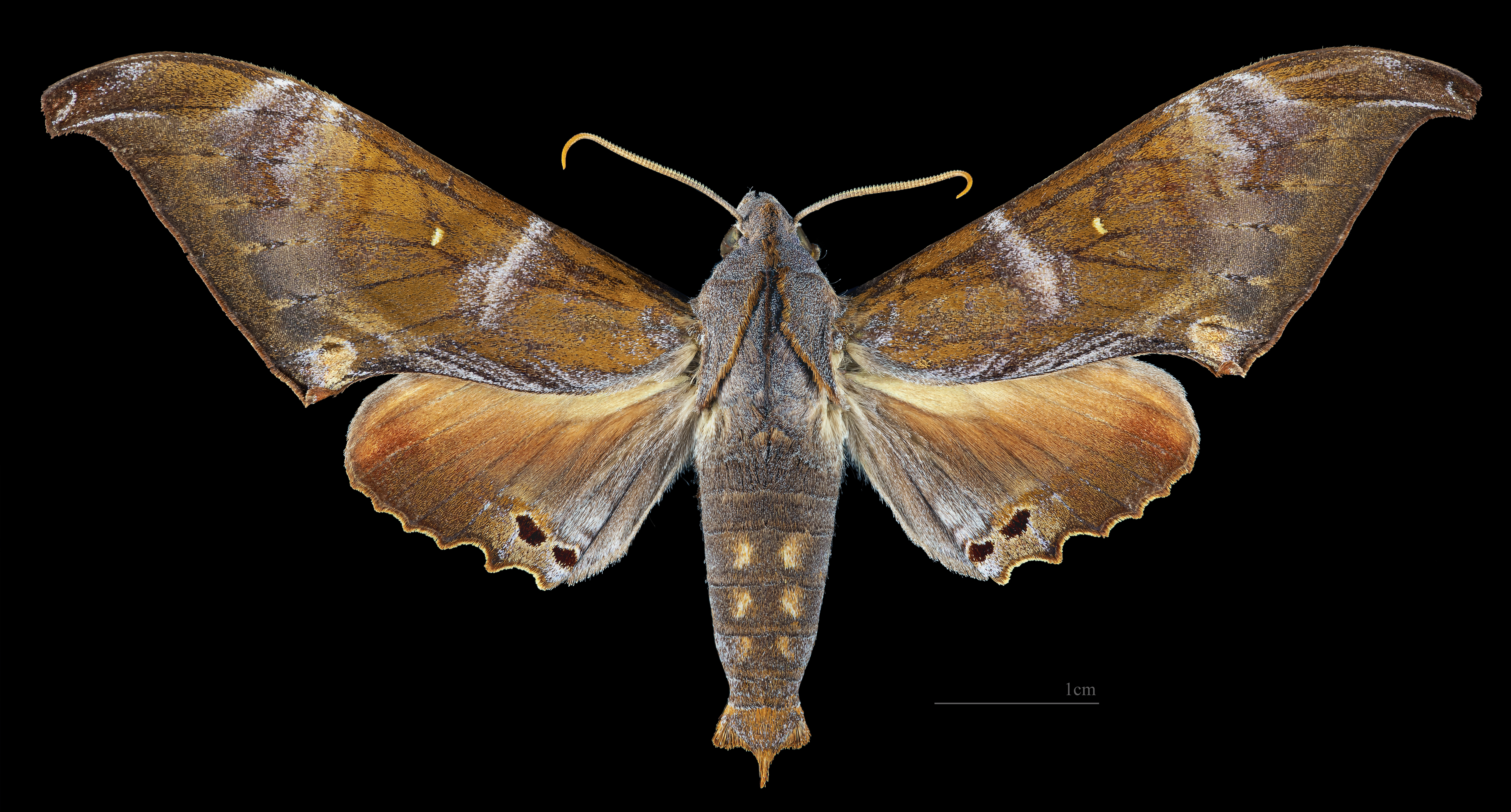 Barbourion lemaii - Dorsal side Collection of the Mathematician Laurent Schwartz